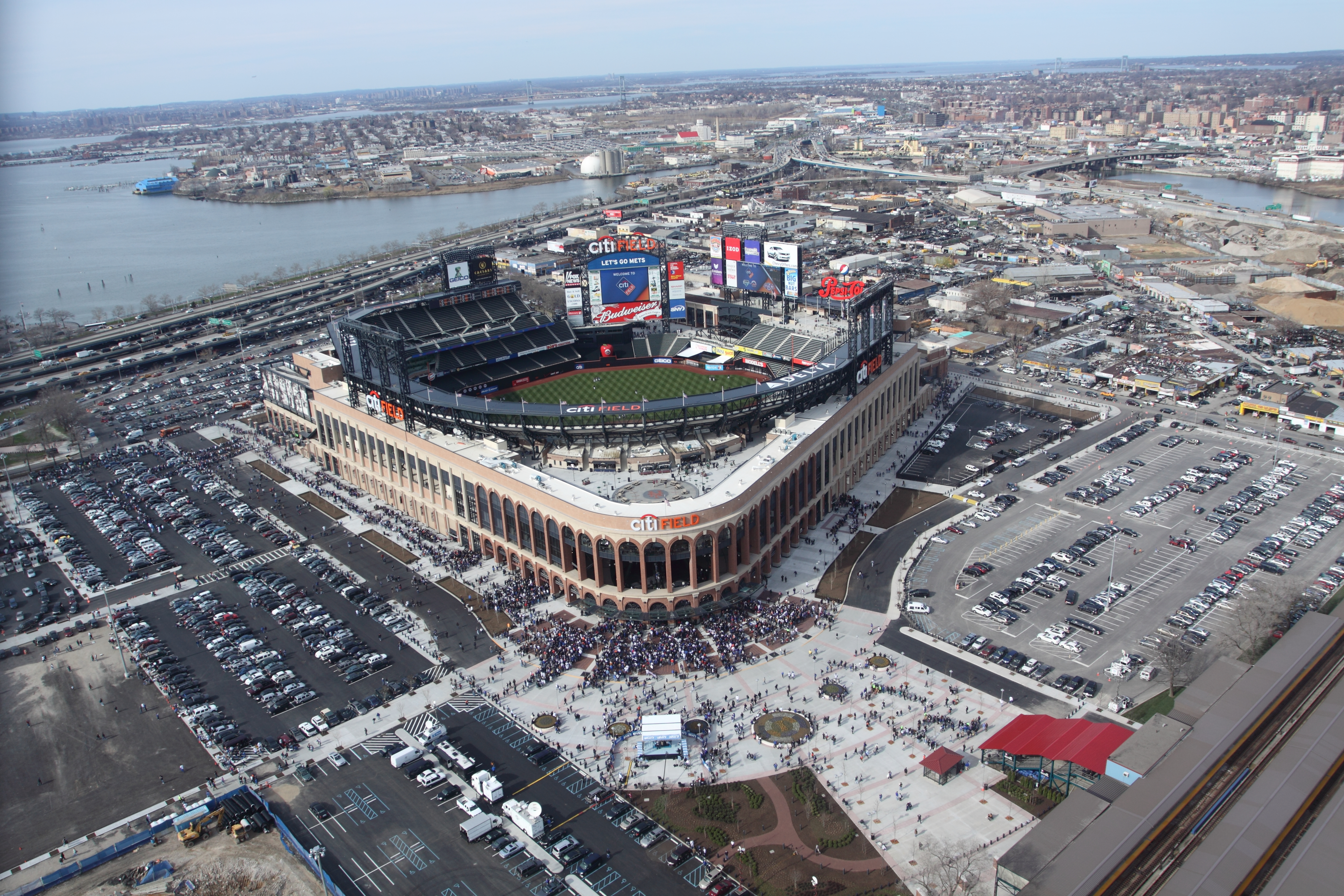 Aerial Shot of Citi Field_Opening Day_April 13th_2009